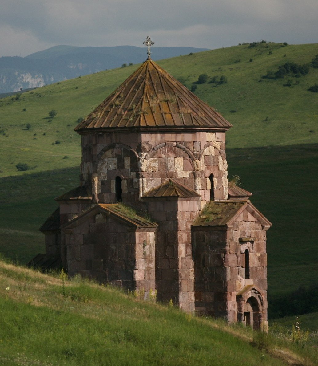 Vospekar church, 7th century